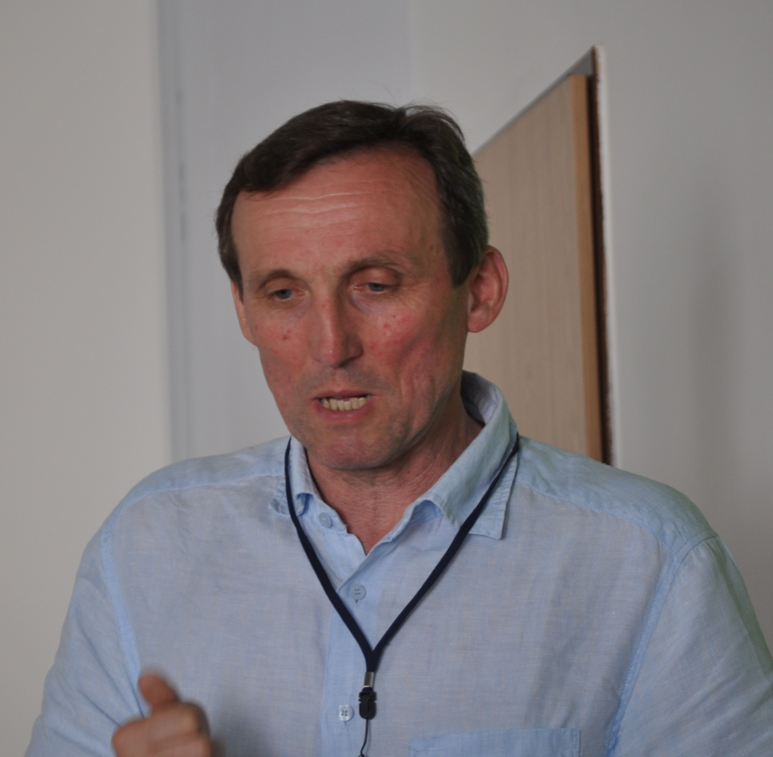 Prof. Martin Braniš during discussion afternoon organized by the Society for Sustainable Living